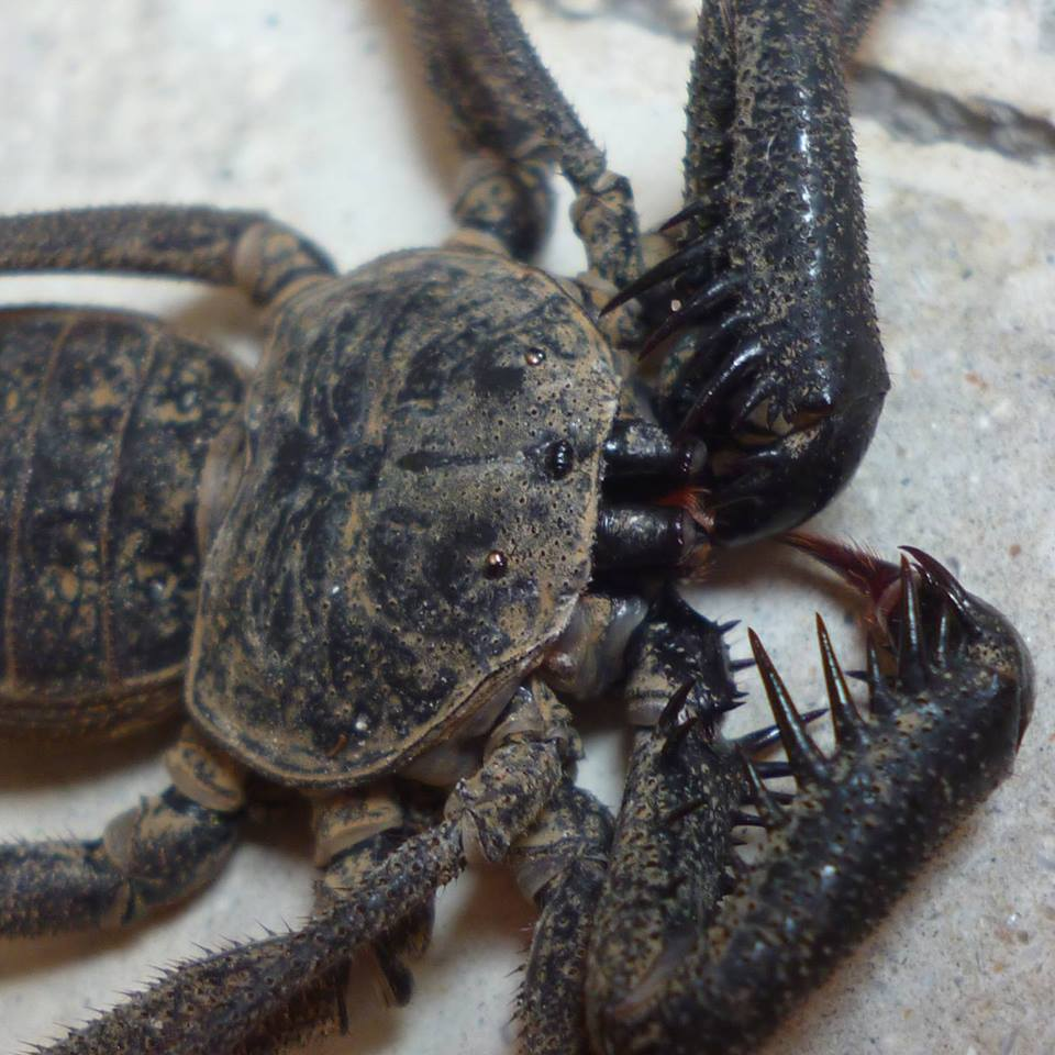 Adult female from a graveyard in Nuevo Leon, Mexico.